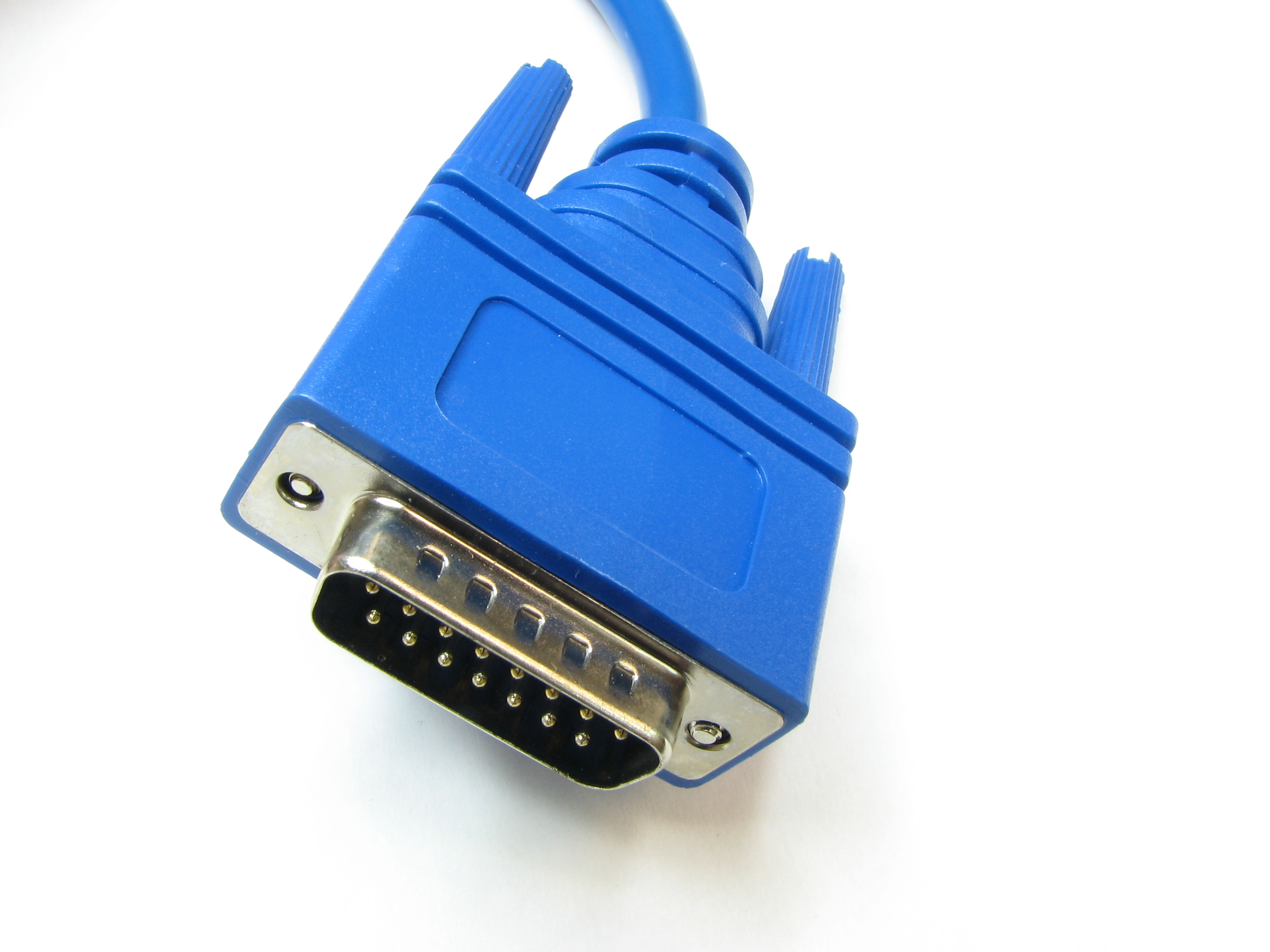 A 15-pins D-Sub male connector (DTE side), standardised by ISO 4903, also called “DA-15”, and usable with ITU-T Recommandation X.21.